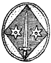 Coat of arms of the noble Swedish family of Stjernswärd (also spellt Stiernswärd)